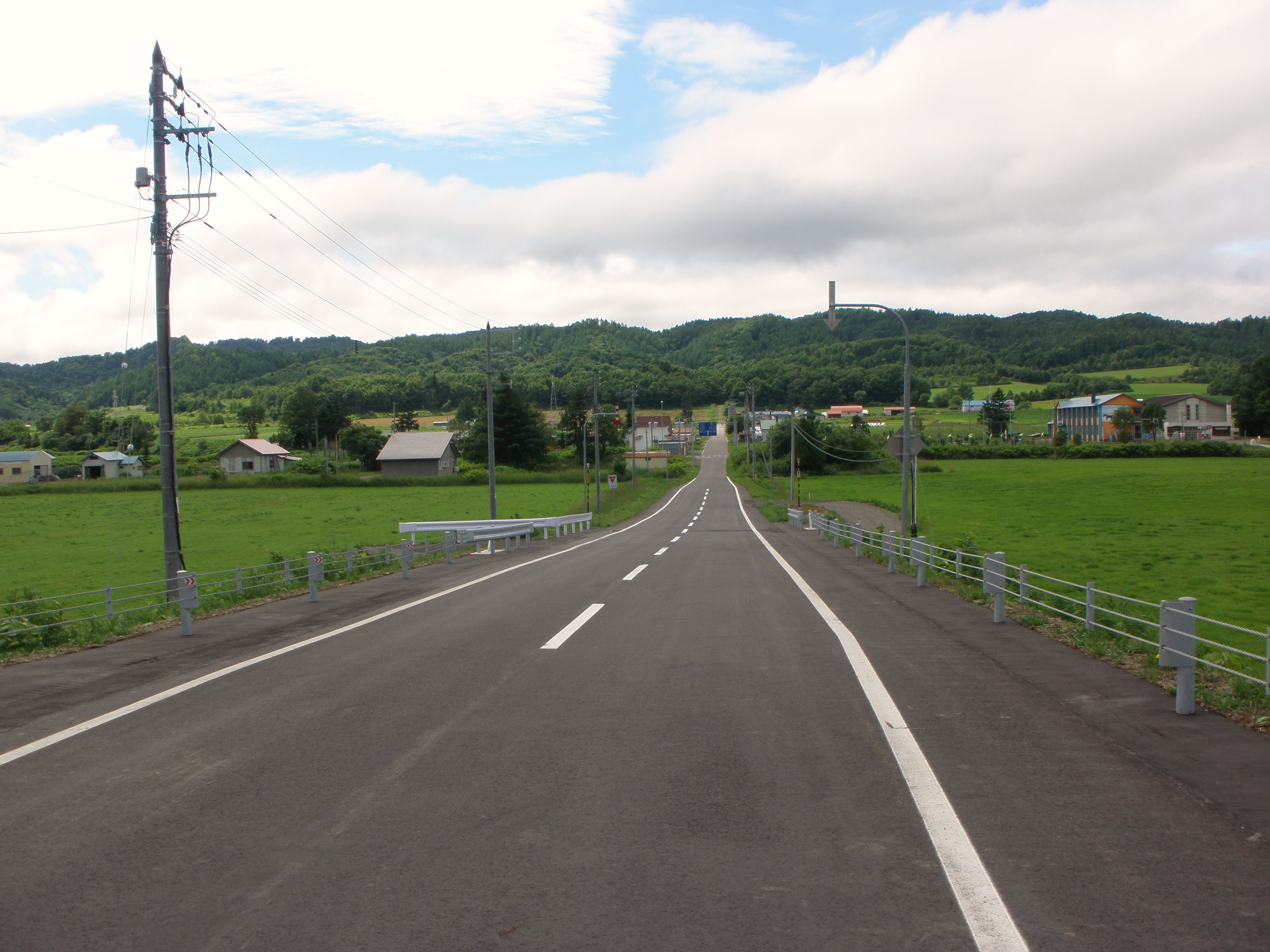 Hokkaido Prefecture Route 445 in Bifuka Town, Hokkaido, Japan